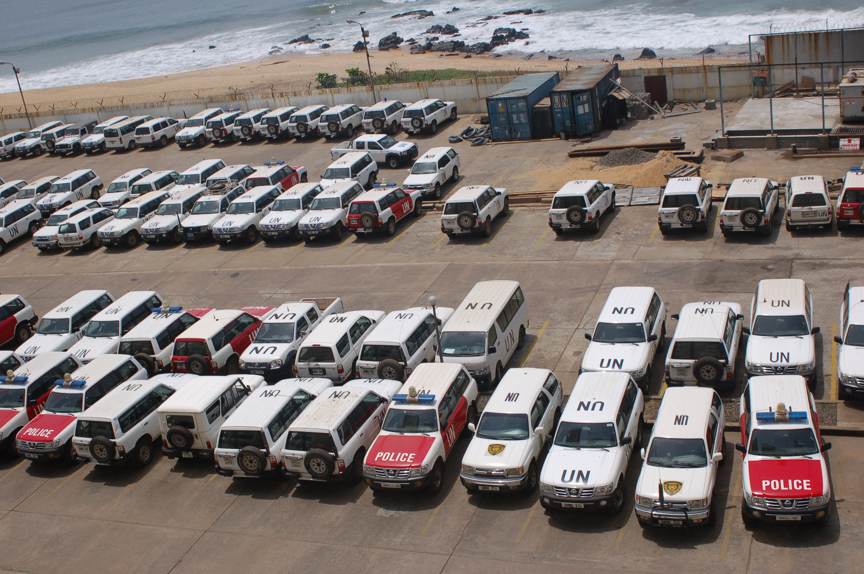 UN cars outside UNMIL in Liberia